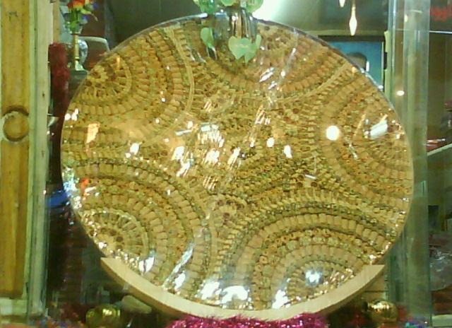 Midani Sweets